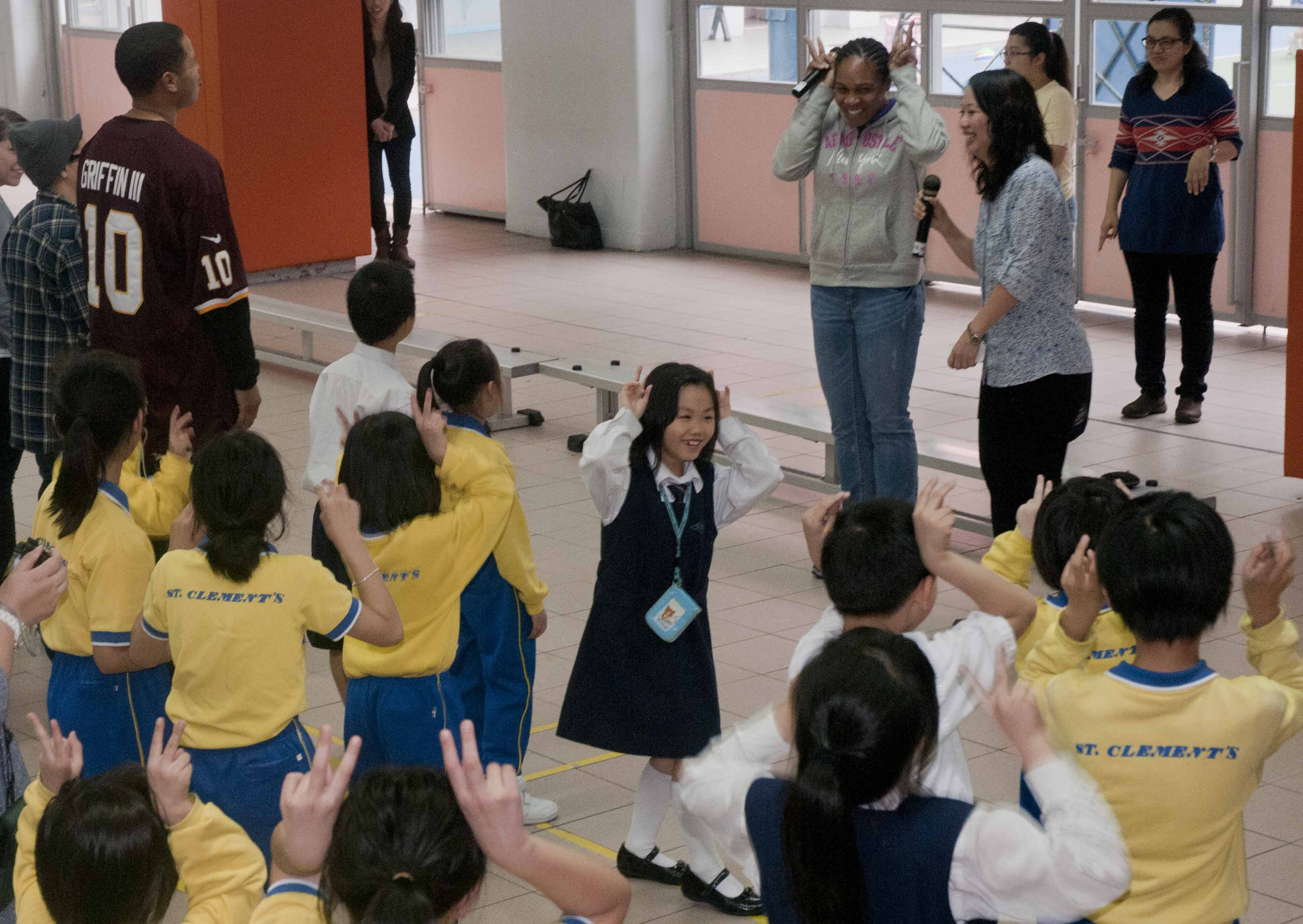 Sgt. Deandrea Wiley, assigned to 15th Marine Expeditionary Unit embarked with the amphibious assault ship USS Peleliu (LHA 5), leads a game of “Simon Says” with children from St. Clement’s Primary School during a community relations outreach in Hong Kong. Peleliu’s port visit represents an opportunity to promote peace and stability in the Asia-Pacific region, demonstrate commitment to regional partners and foster growing relationships. Peleliu is the flagship for the Peleliu Amphibious Ready Group on deployment in the western Pacific region with amphibious transport dock ship USS Green Bay (LPD 20), amphibious dock landing ship USS Rushmore (LSD 47), and embarked 15th Marine Expeditionary Unit. (U.S. Navy photo by Mass Communication Specialist 3rd Class Derek Stroop/Released)